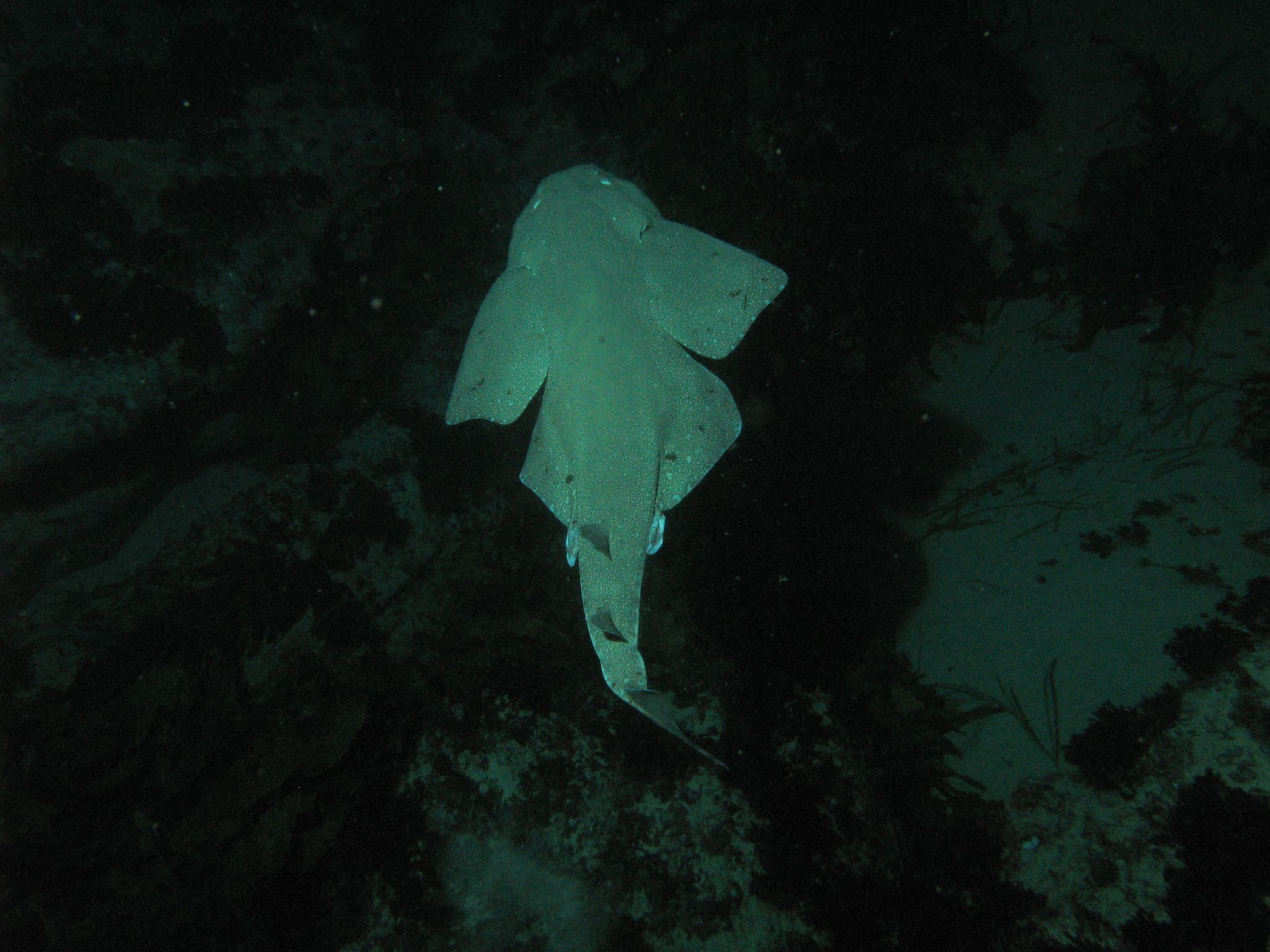 Australian angelshark (Squatina australis) off Sydney